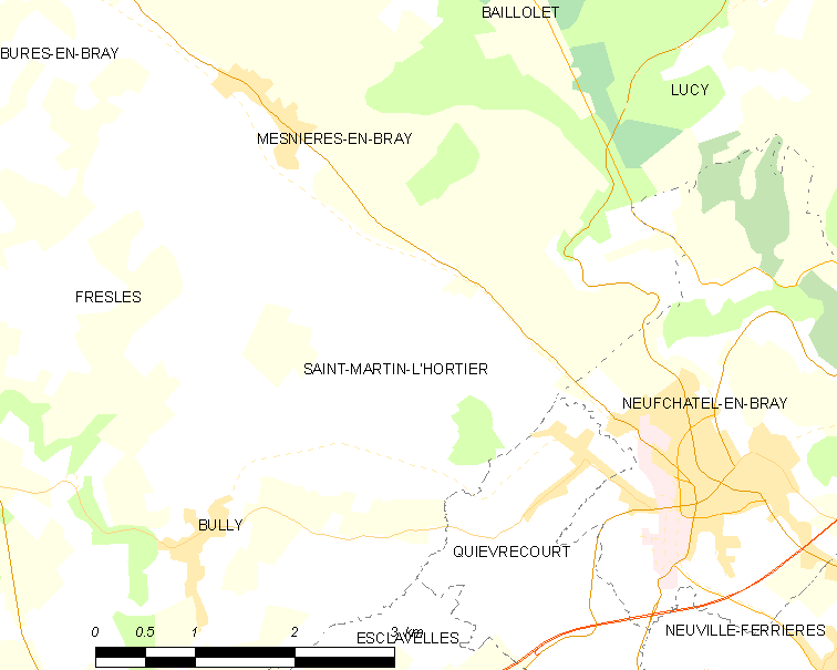 Map of French municipality Saint-Martin-l'Hortier